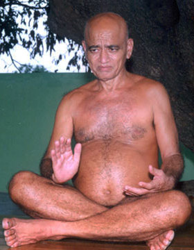 Acharya Shri 108 Vidyasagarji Maharaj